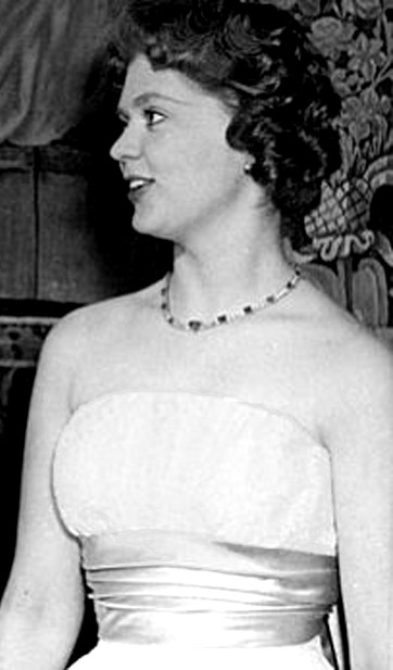 The princesses Margaretha, Désirée and Birgitta dressed up for party 1958.